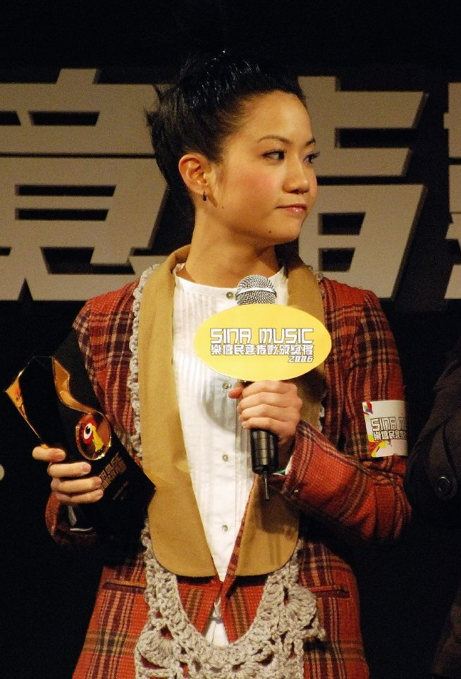 Ellen Joyce Loo at SINA Music樂壇民意指數頒獎禮 2006 (hosted on 29 January 2007)